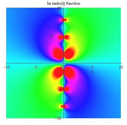 Tanhc Im plot